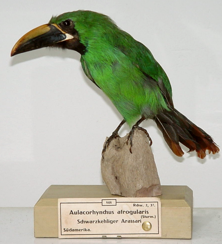 Piciformes - Ramphastidae: Aulacorhynchus prasinus atrogularis (Sturm, 1841), collected by Maximilian zu Wied-Neuwied, now Museum Wiesbaden, Naturhistorische Landessammlung MWNH, Germany.